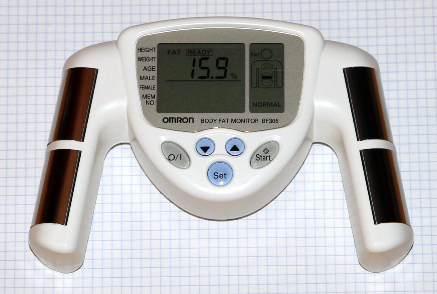 Omron BF306. Body fat monitor for the upper body. 4 measuring points.